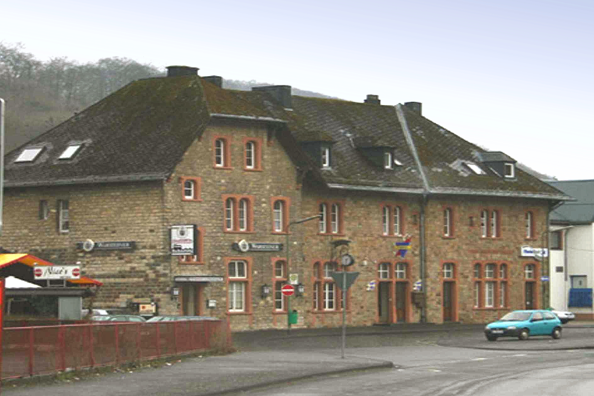 Former railway-station of Prüm, reception building, seen from the street